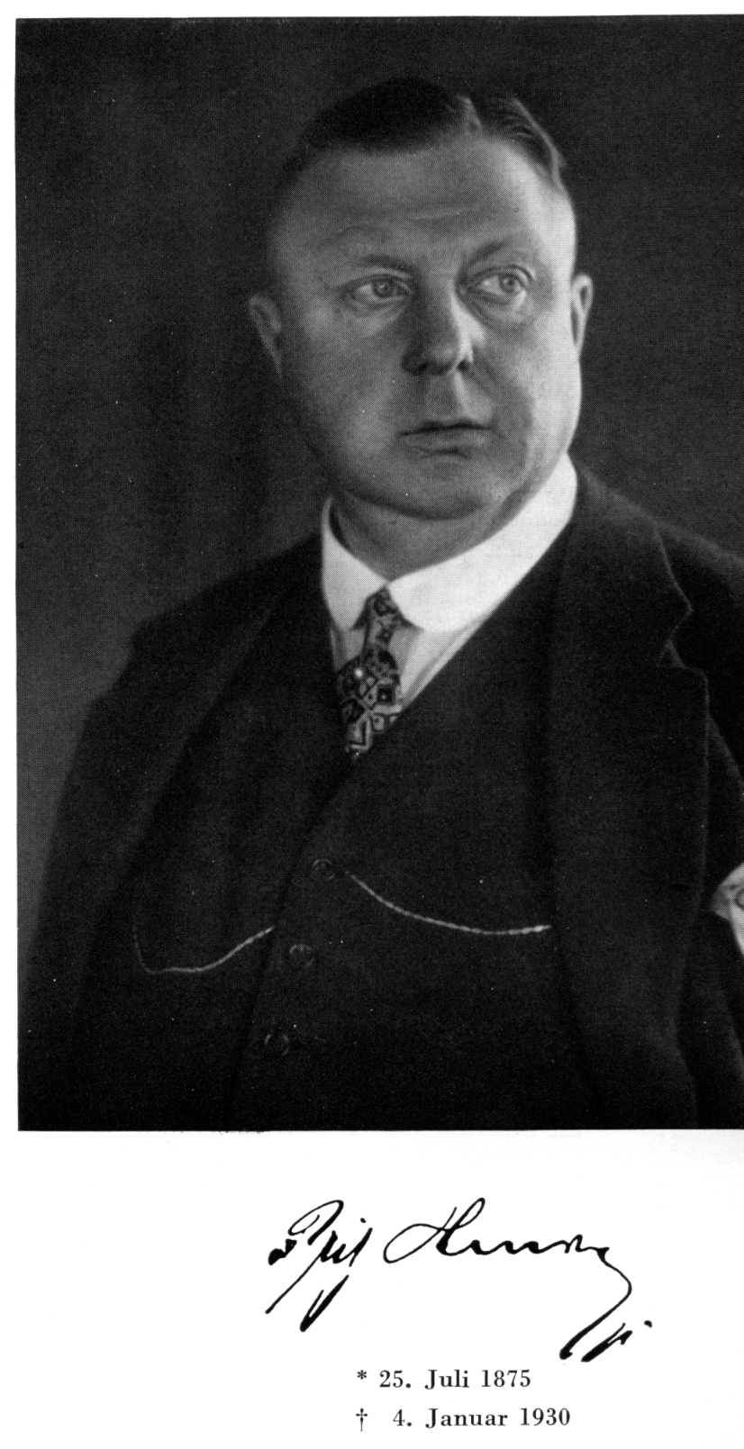 Fritz Henkel (1875–1930), son of Henkel founder